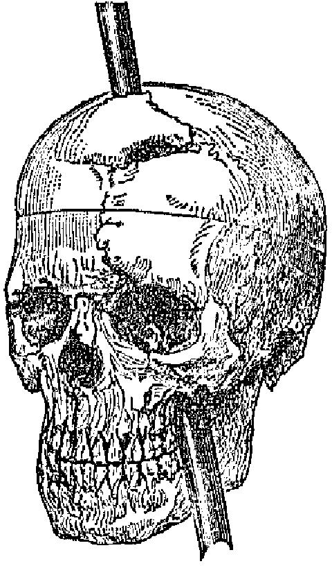 Figure 02 from Recovery from the passage of an iron bar through the head Front and lateral view of the cranium, representing the direction in which the iron traversed its cavity; the present appearance of the line of fracture, and also the large anterior fragment of the frontal bone, which was entirely detached, replaced, and partially re-united.